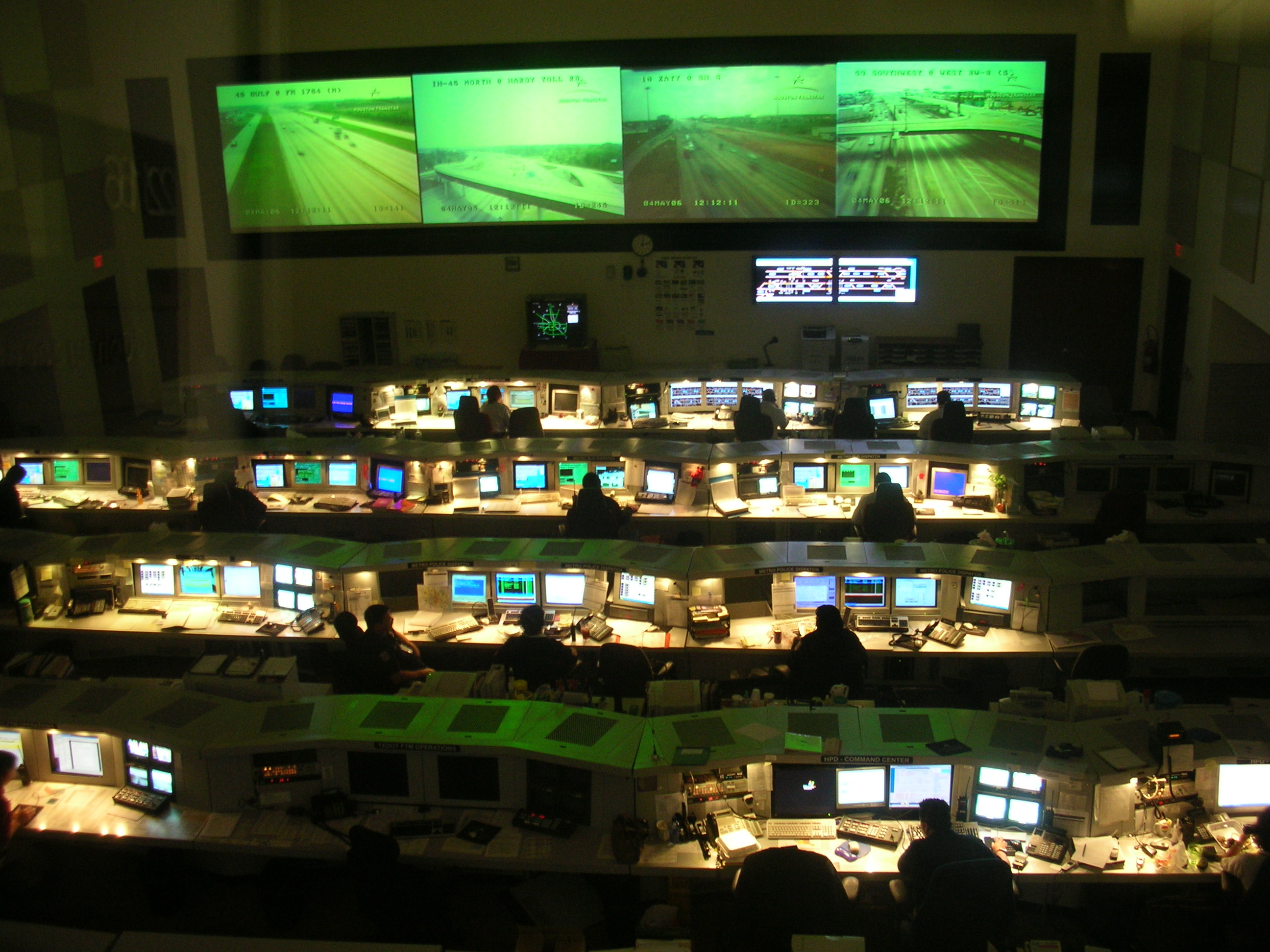 Houston Transtar Traffic and Emergency Management command center